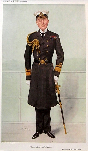 Caricature of Sir CR Keppel. Caption read "Commodore HM's Yachts".